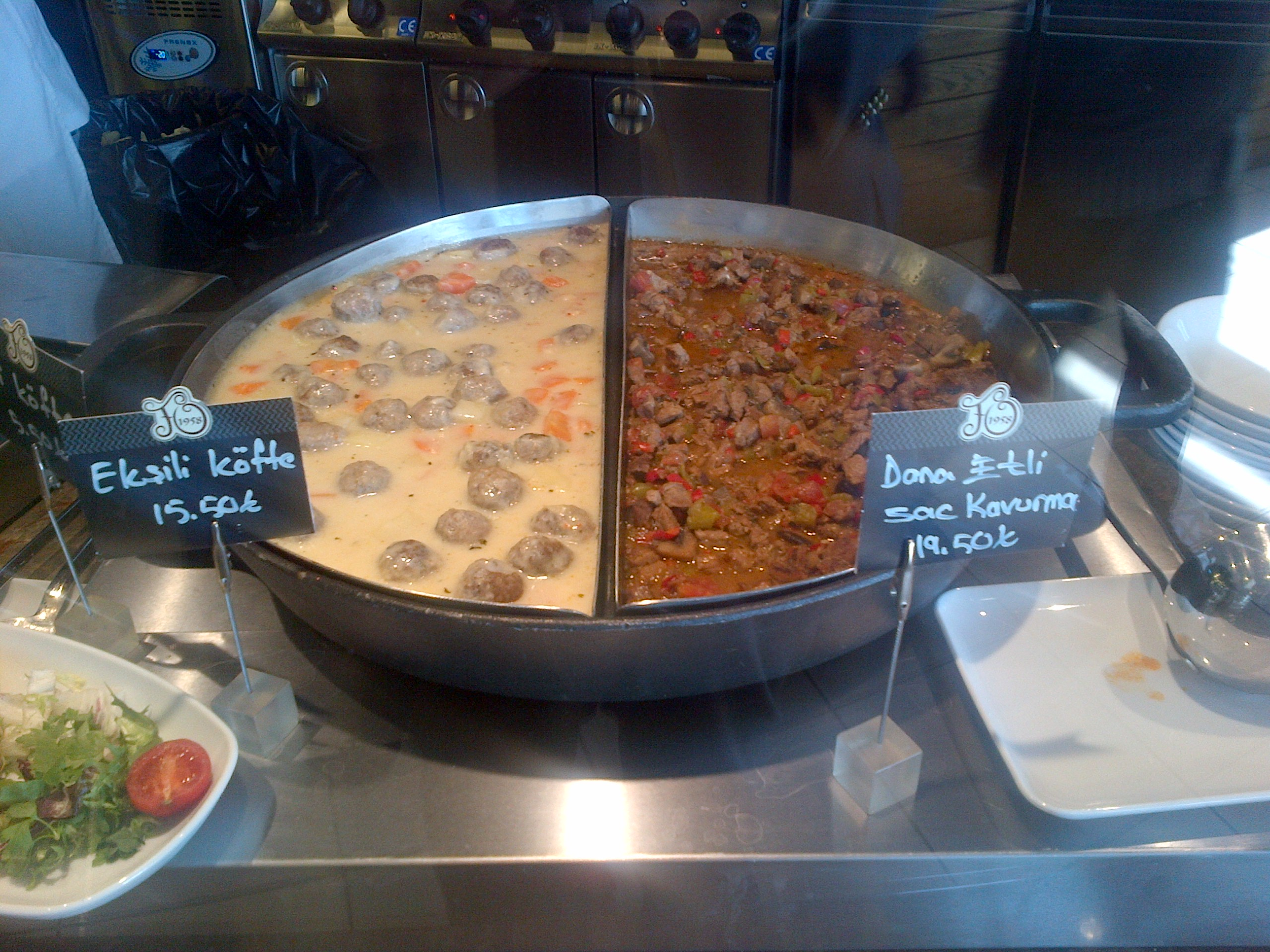 "Ekşili köfte" ("sulu köfte with a sour sauce) and "Saç kavurma" (or "Çoban kavurma", different than the "kavurma" which has no juice or veggies) at display, sharing the same tray which has a separation in the middle, in a restaurant, Ankara, Turkey.